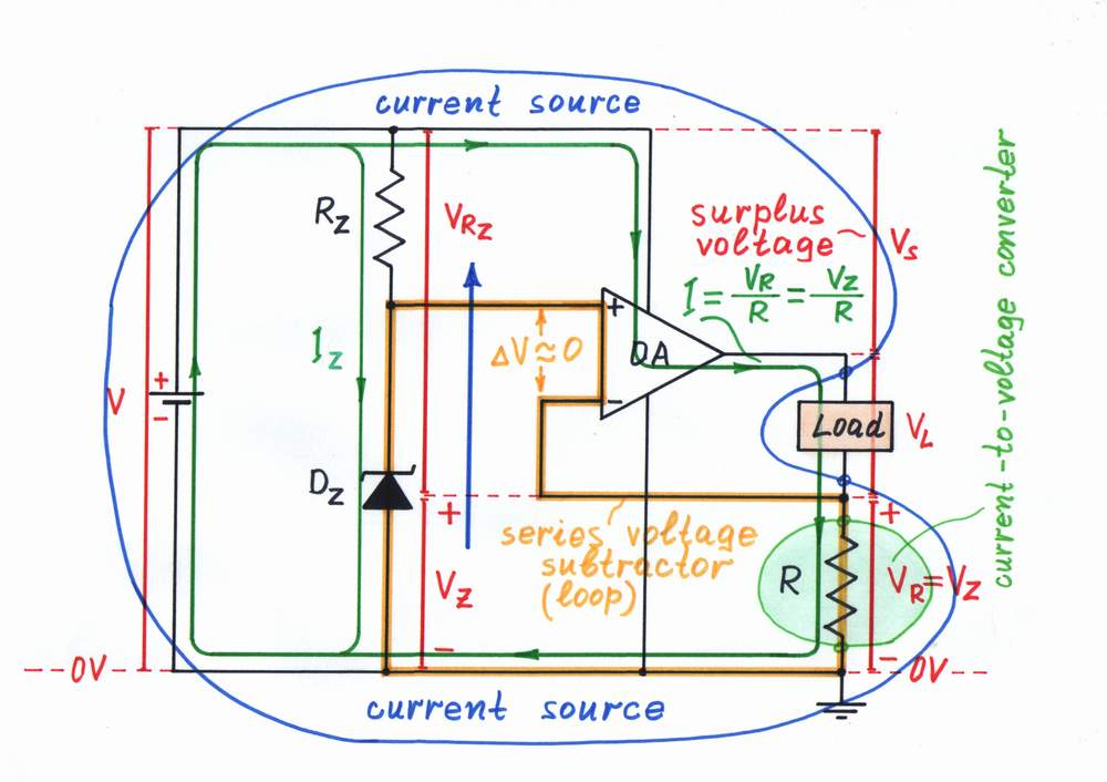 Op-amp current source with negative feedback